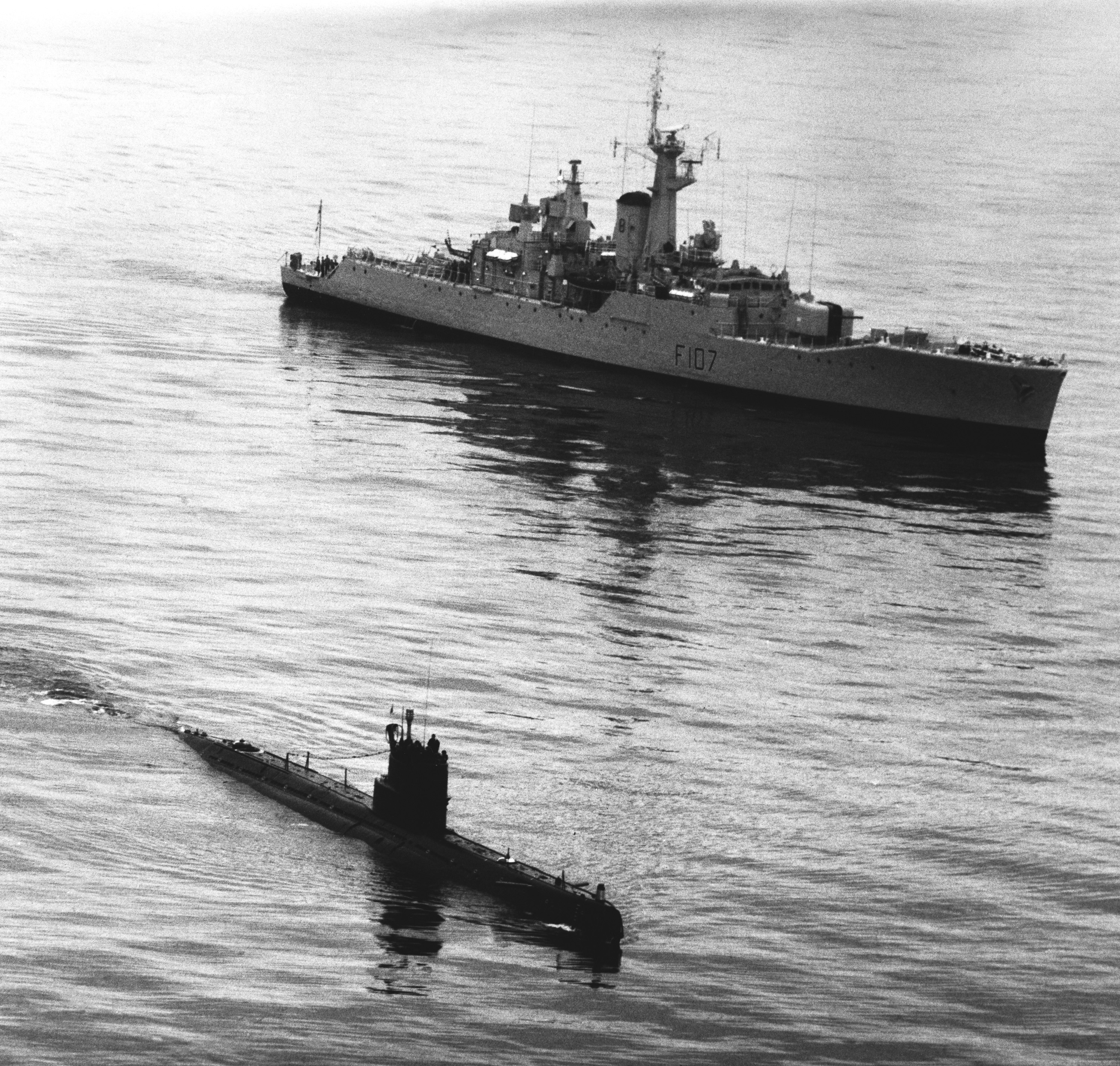 A Soviet Whiskey-class attack submarine in front of the British frigate HMS Rothesay (F107) on 10 March 1987.